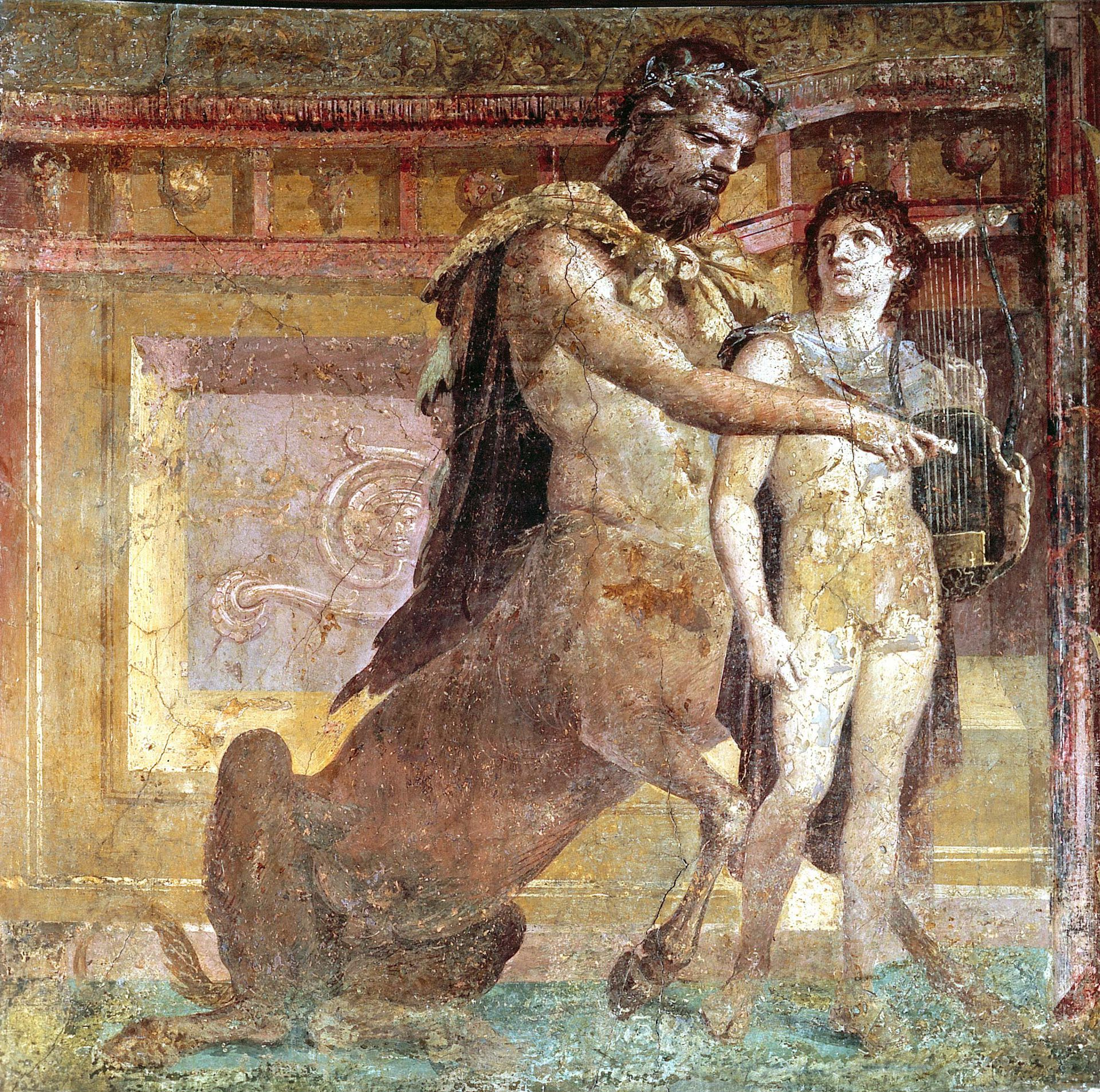 The centaur Chiron teaching Achilles how to play the lyre, Roman fresco from Herculaneum, National Archaeological Museum of Naples.